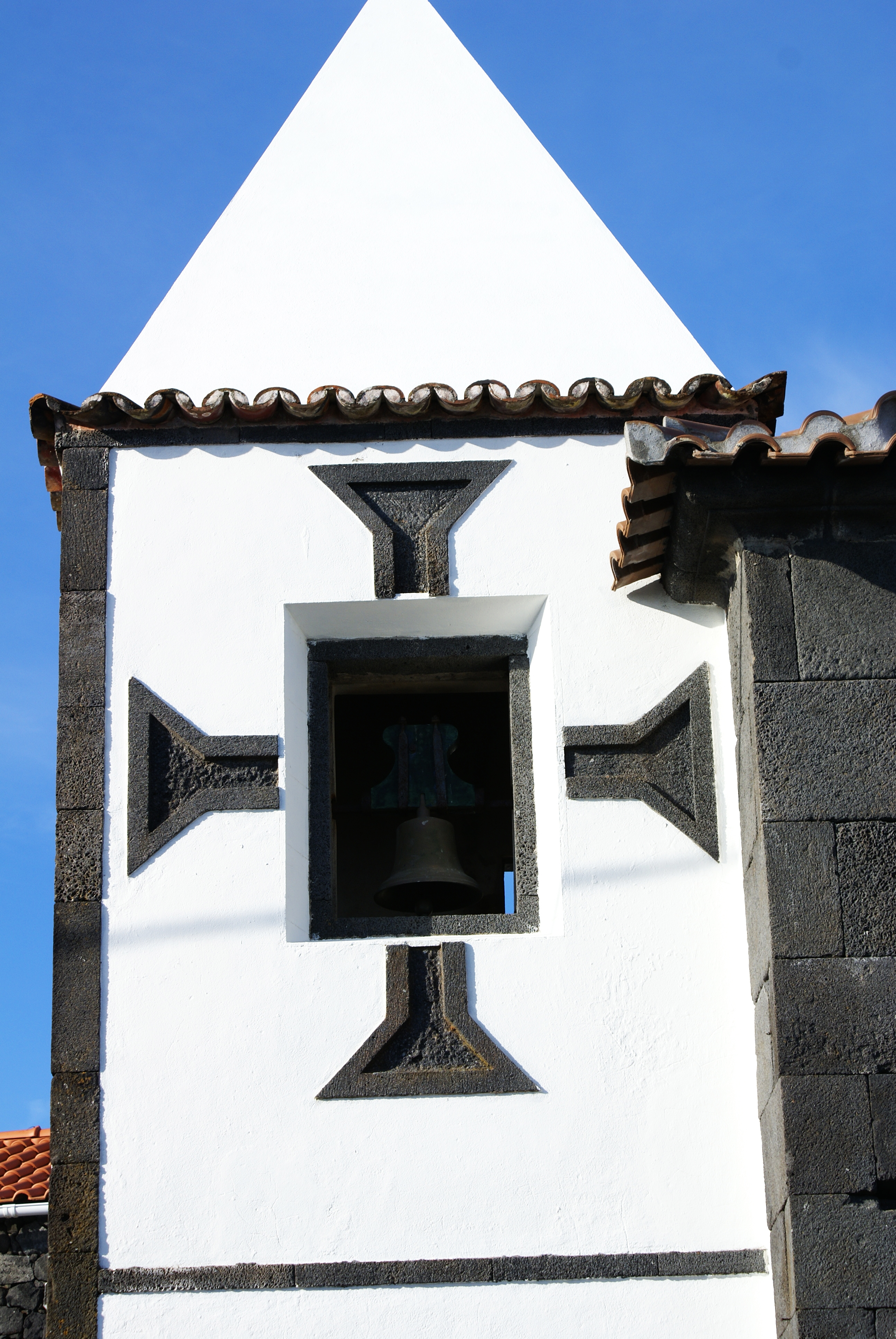 Detail of the bell tower of the Chapel of São Vicente, São Roque do Pico, Pico (Azores), Portugal